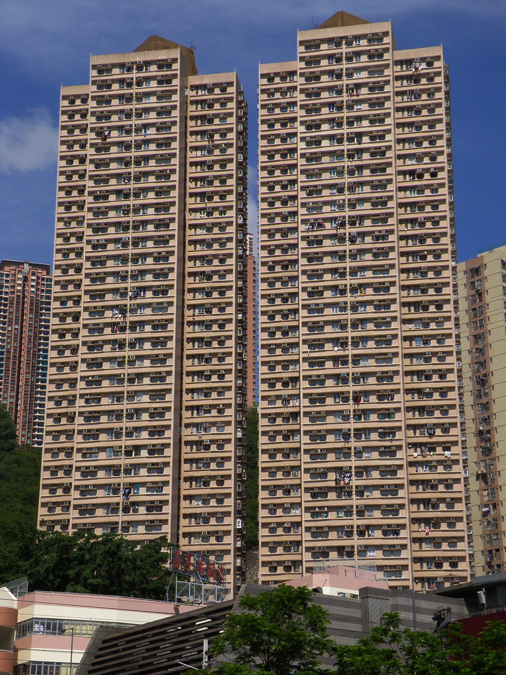 Yin Lai Court in Lai King, Hong Kong.